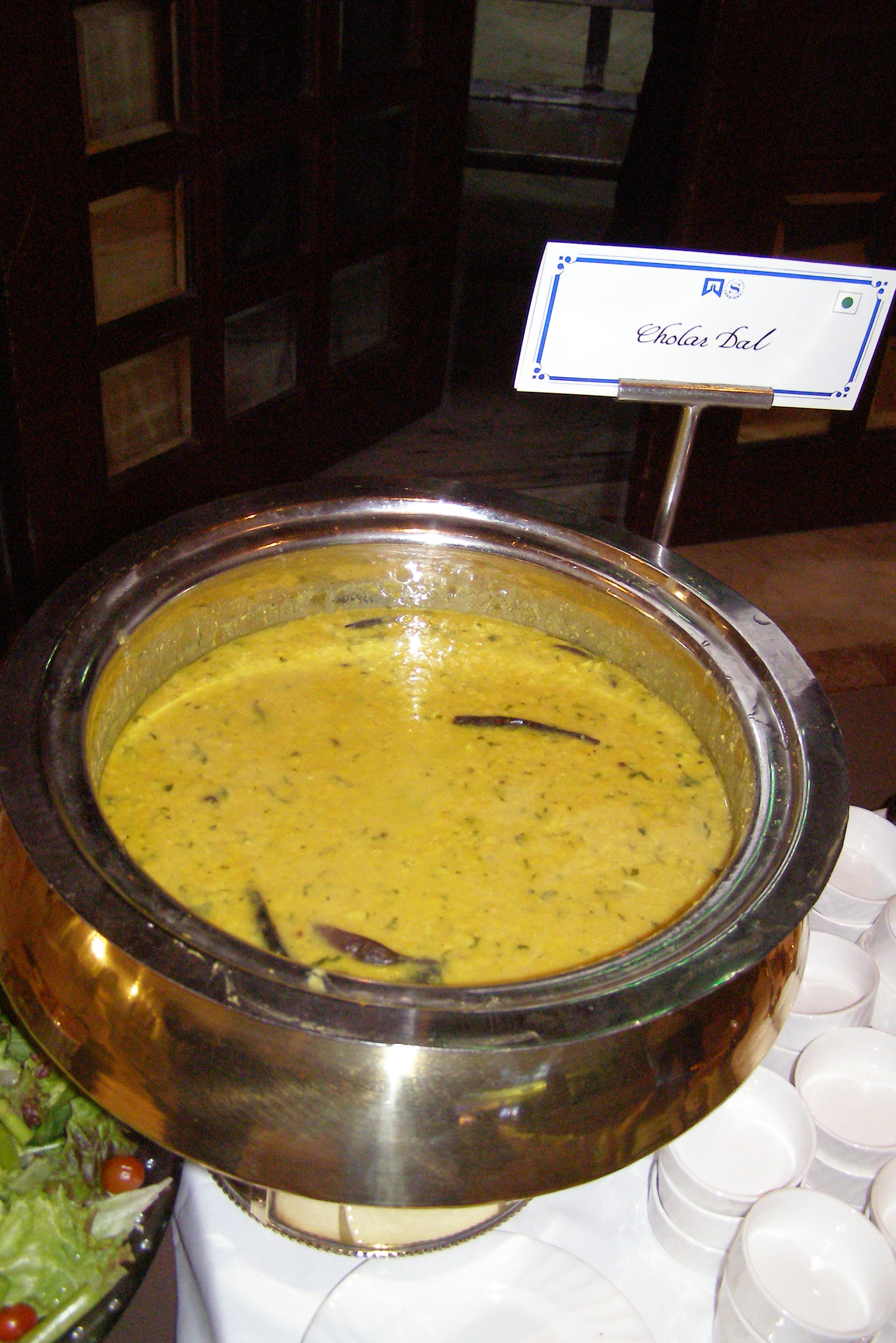 Cholar Dal, Bengali Pulao, South Asian, East Indian Cuisine, Vegetarian, New Delhi Sheraton Hotel Ballroom, 05 May 2007